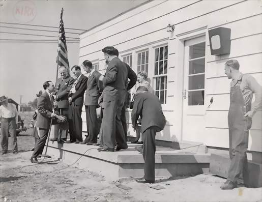 KIRX Radio first day of boadcasting